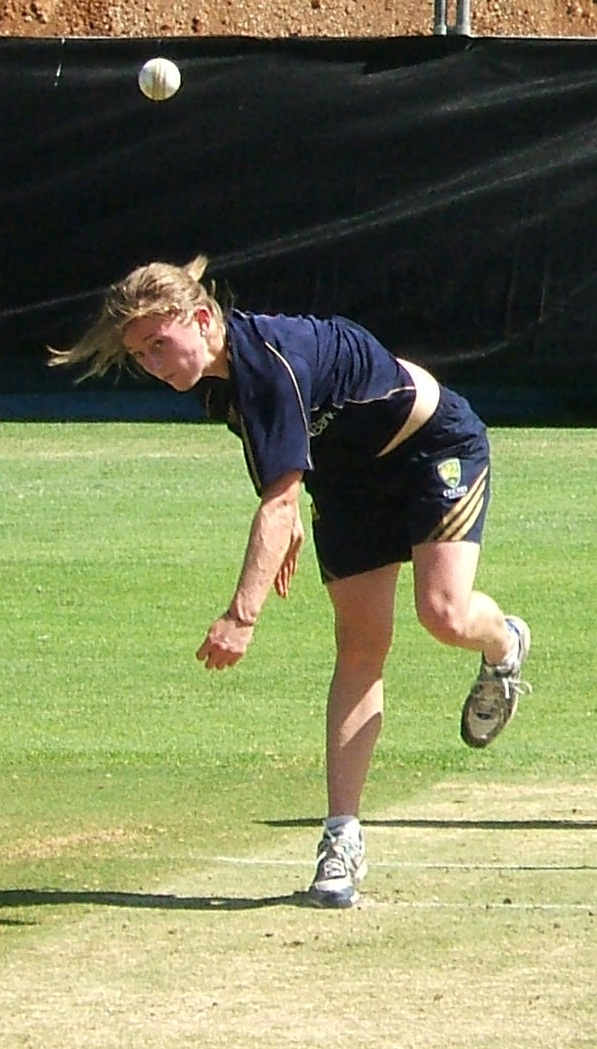 Named person engaging in named action at Adelaide Oval nets/training ground